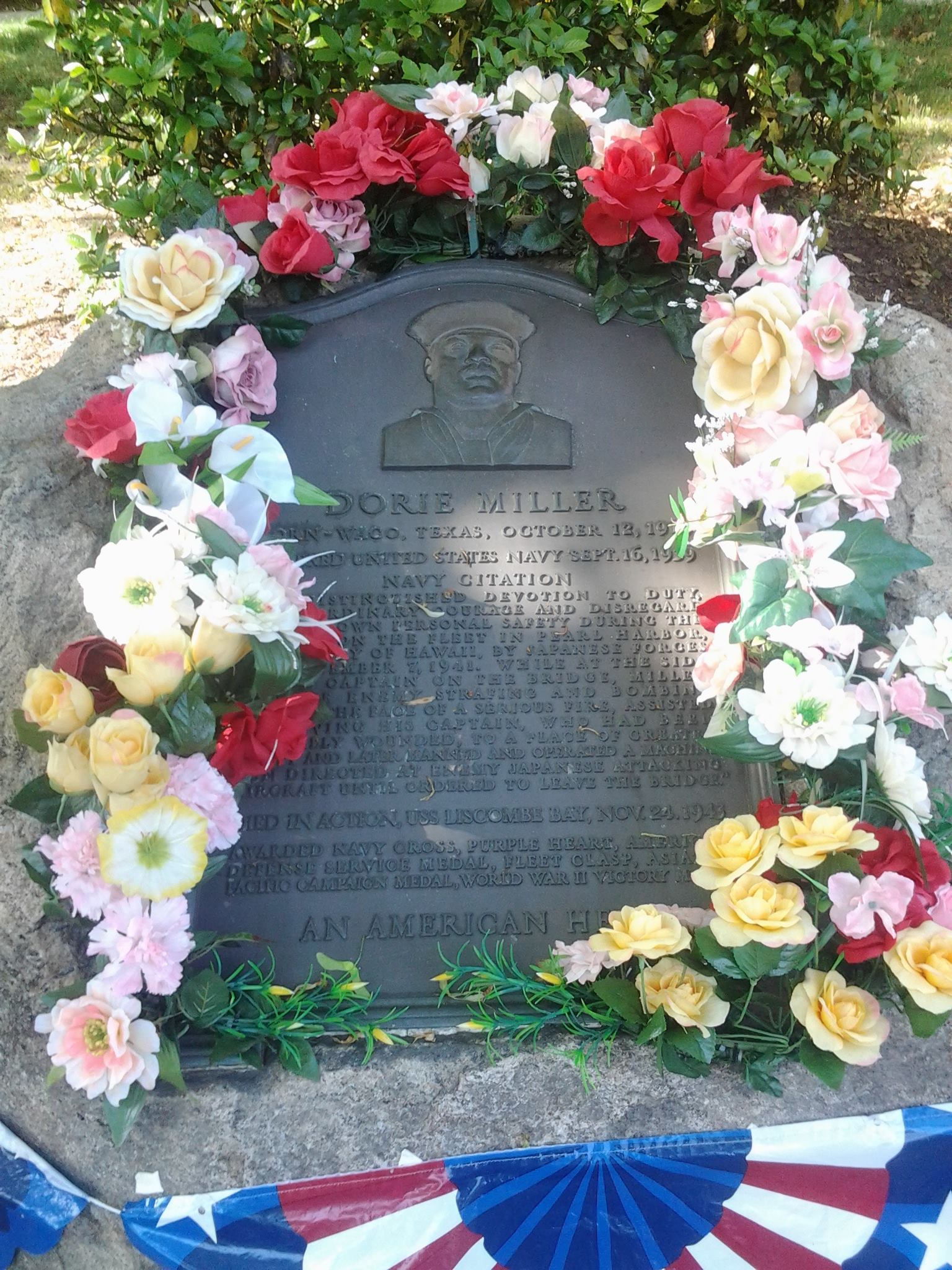 Dorie Miller memorial at the Dorie Miller housing cooperative in Corona, Queens, New York City. It is decorated for Memorial Day. Dorie Miller was a US sailor who was decorated for this bravery at Pearl Harbor and who later died in action during WWII.